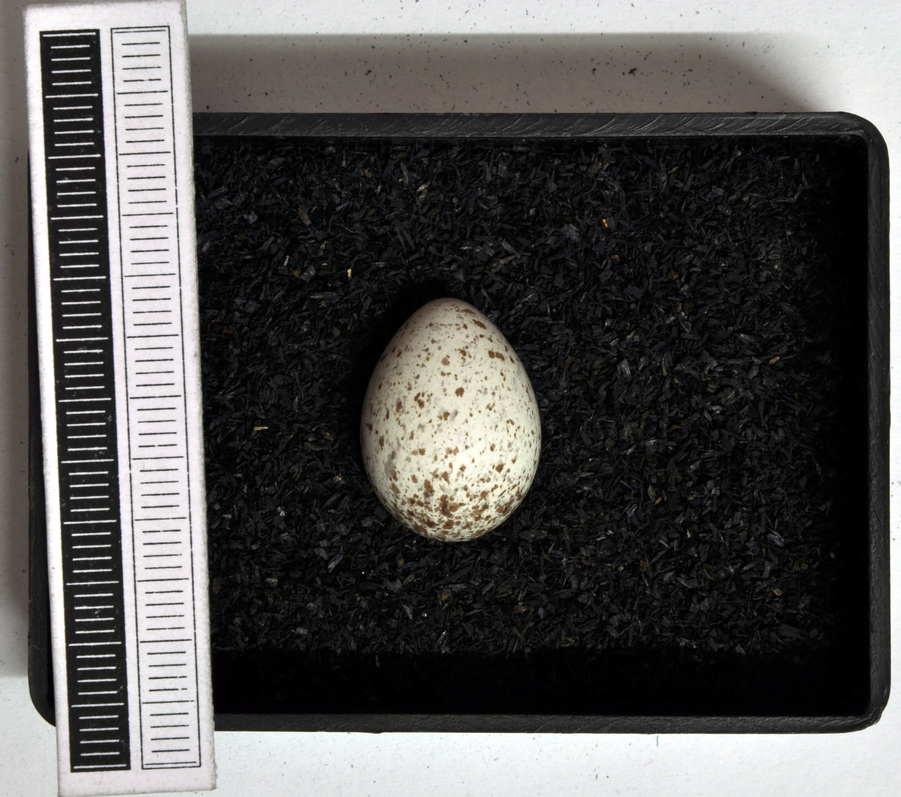 White wagtail Motacilla alba yarrellii, egg, Coll. Museum Wiesbaden, leg. W. Abelmann